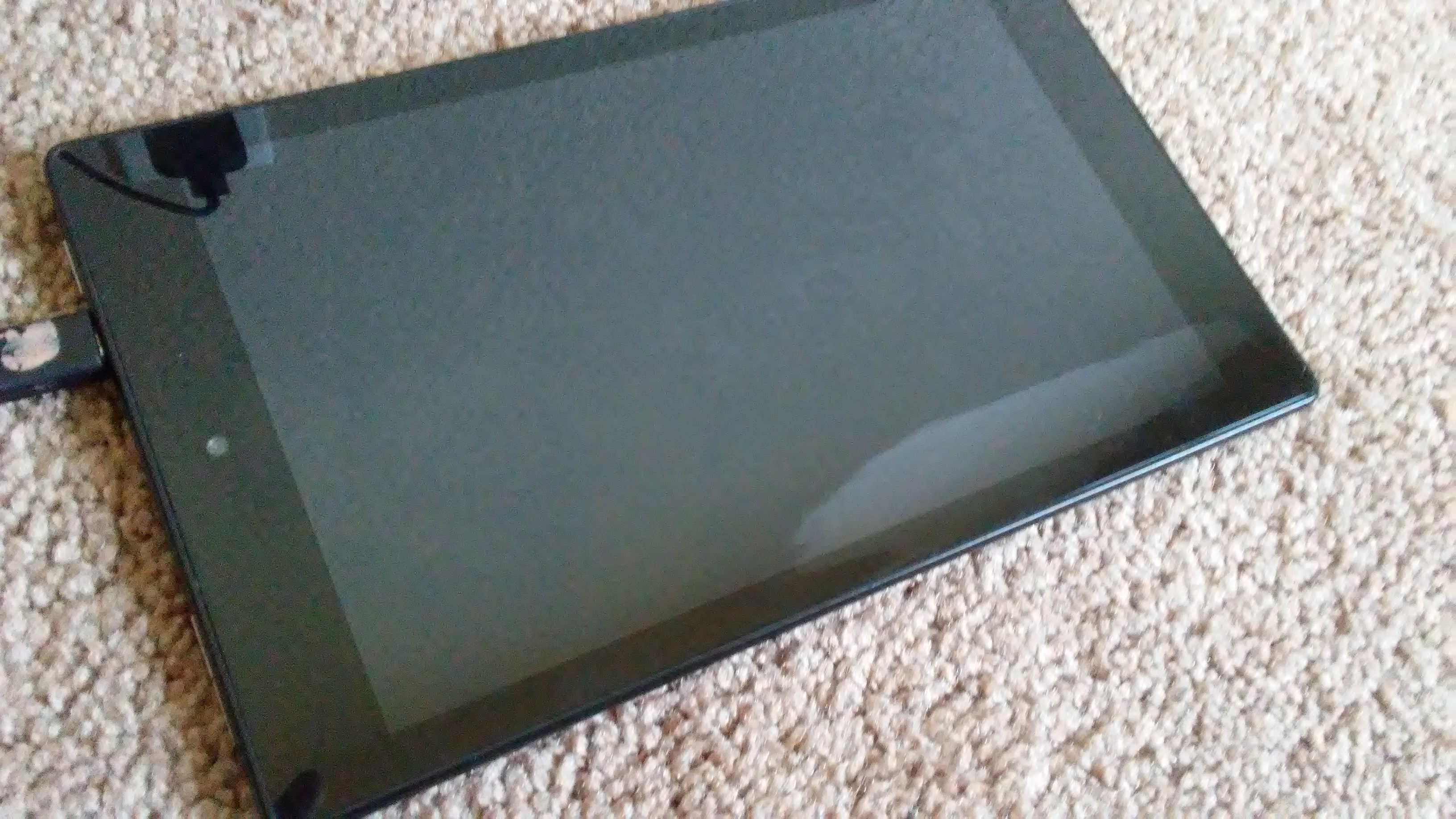 A kindle fire HD8 gen5 that is on a carpet.